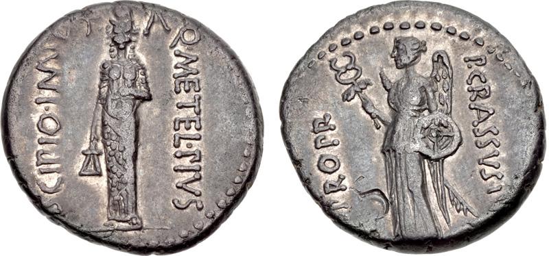 The Pompeians. Q. Caecilius Metellus Pius Scipio and P. Licinius Crassus Junianus. 47- Spring 46 BC. AR Denarius (18mm, 3.84 g, 9h). Utica mint. Genius of Africa (Sekhmet) standing facing, holding ankh in right hand; GT A flanking head; SCIPIO • IMP up left, Q • METEL • PIVS down right / Victory standing left, holding winged caduceus in right hand, small round shield in left; [LE]G PRO PR up left, P • CRASSVS • IV[N] down right. Crawford 460/4; CRI 43; Sydenham 1050; Kestner 3585; BMCRR Africa 8; Caecilia 51. Good VF, darkly toned, banker’s mark on reverse. Rare. From the Goldman Roman Imperatorial Collection. Ex Numismatica Ars Classica 59 (4 April 2011), lot 824 (where it realized CHF 5000).